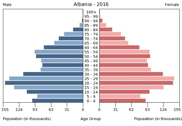 The population pyramid of Albania illustrates the age and sex structure of population and may provide insights about political and social stability, as well as economic development. The population is distributed along the horizontal axis, with males shown on the left and females on the right. The male and female populations are broken down into 5-year age groups represented as horizontal bars along the vertical axis, with the youngest age groups at the bottom and the oldest at the top. The shape of the population pyramid gradually evolves over time based on fertility, mortality, and international migration trends.